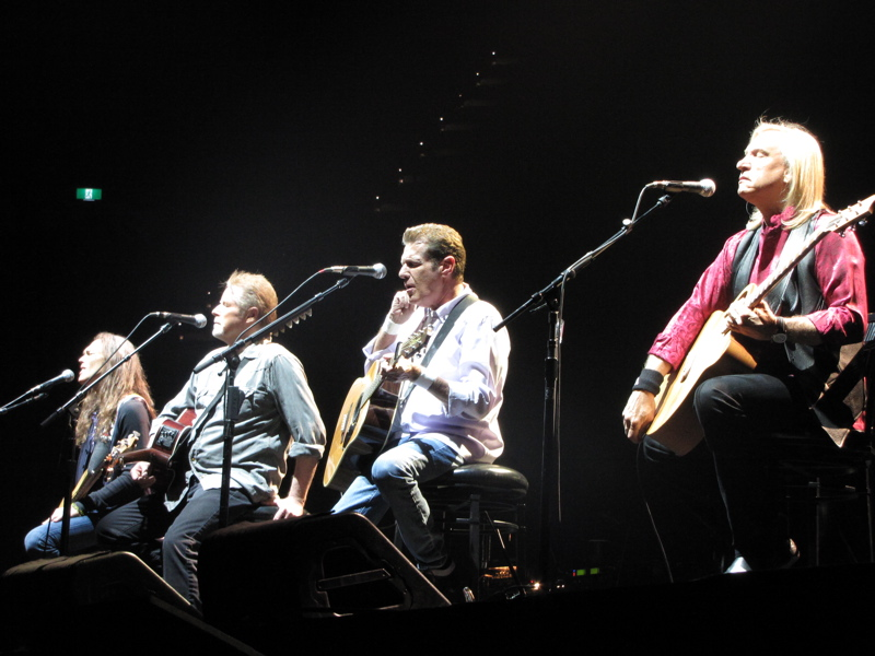 Eagles in concert, Rod Laver Arena, Melbourne - Friday 17 December 2010